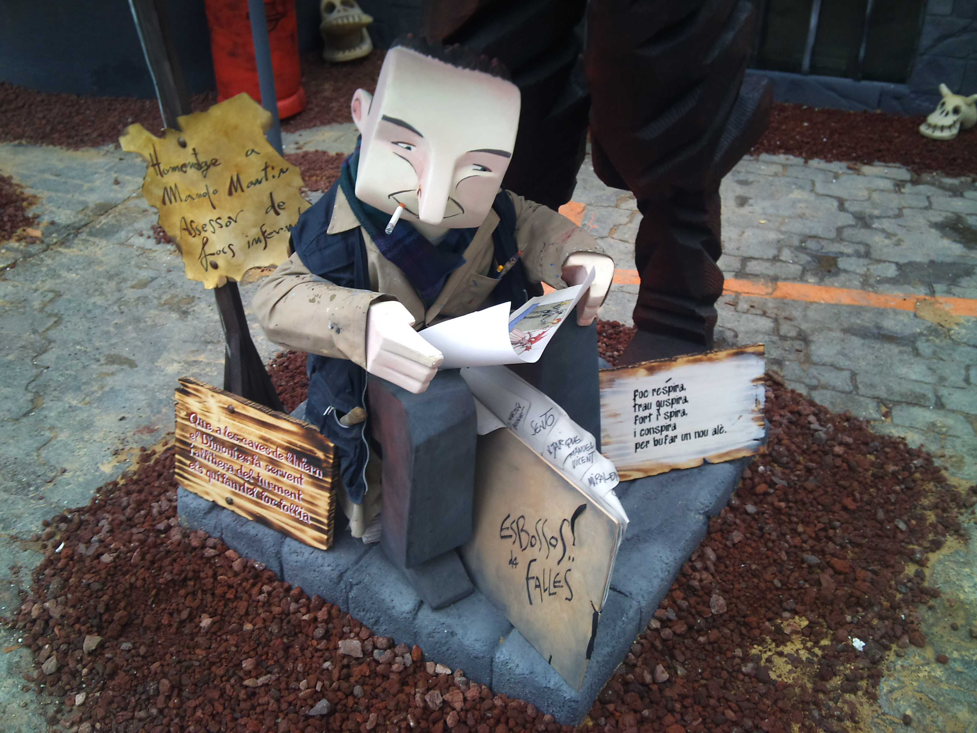 Ninot i hommage to Manolo Martín, falles artist.